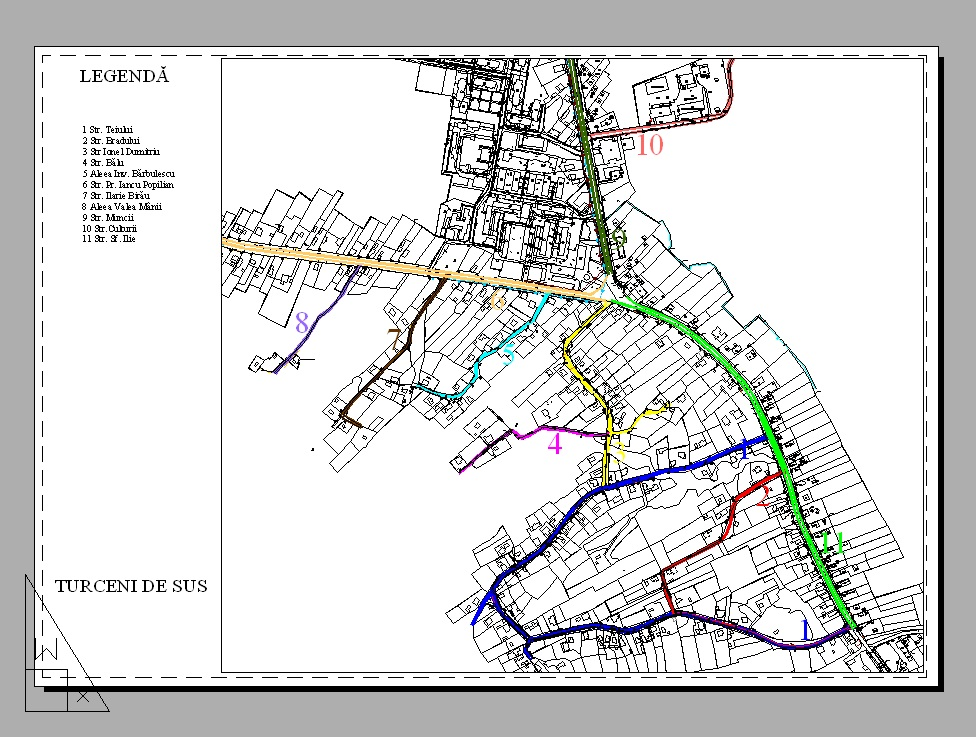 Turcenii